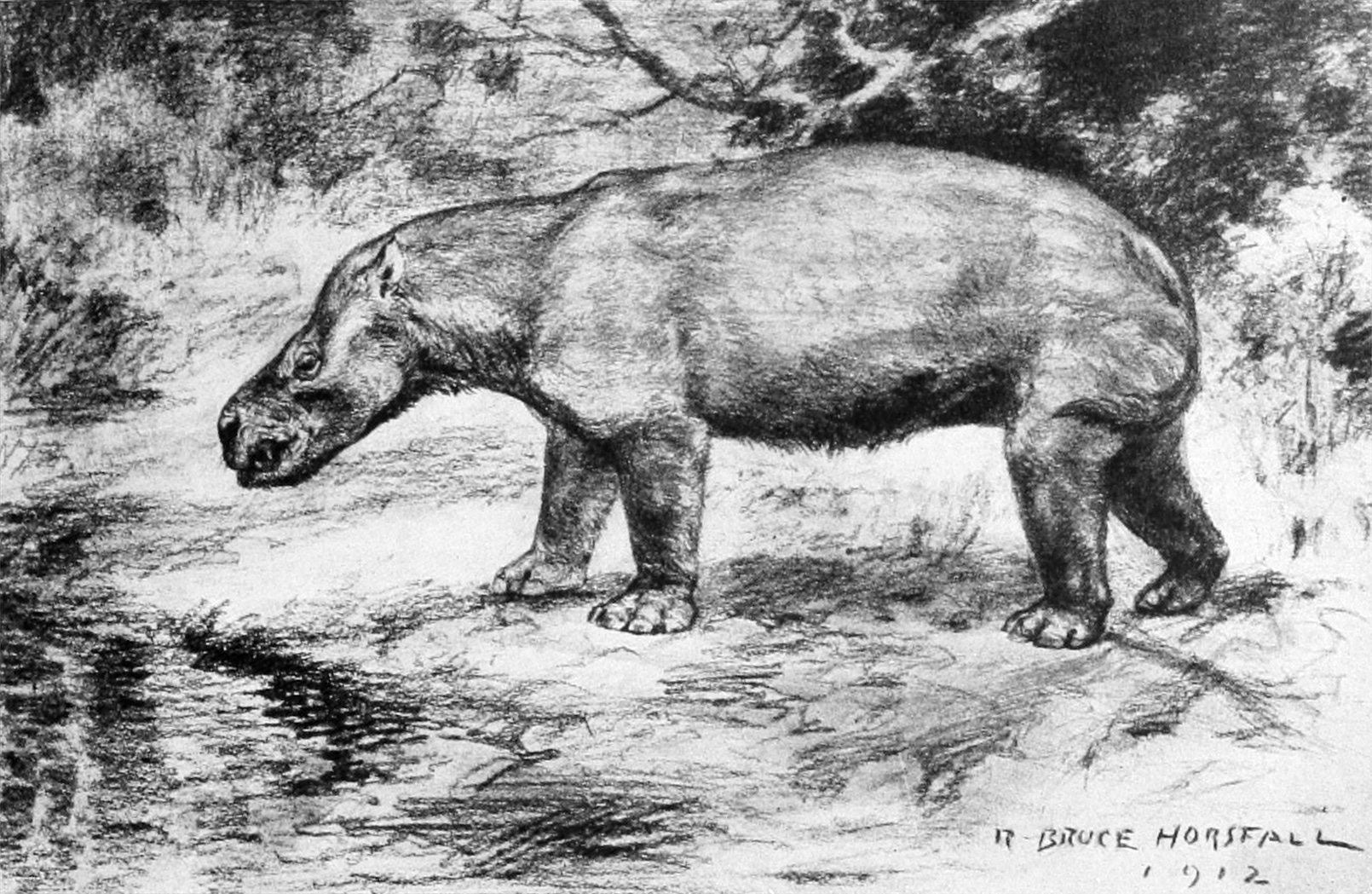 Life restoration of Coryphodon testis, in W.B. Scott's "A History of Land Mammals in the Western Hemisphere." New York: The Macmillan Company.